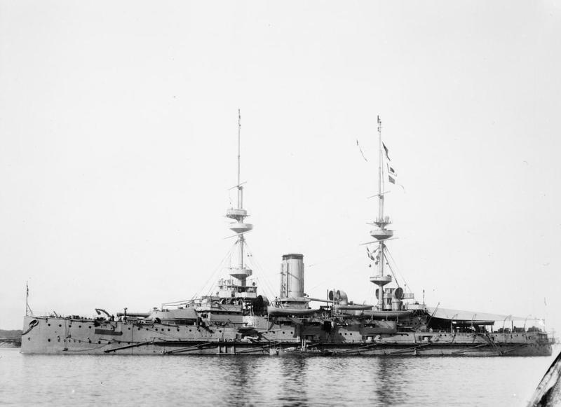 Majestic Class Battleships- HMS Victorious HMS VICTORIOUS under way, 1903.